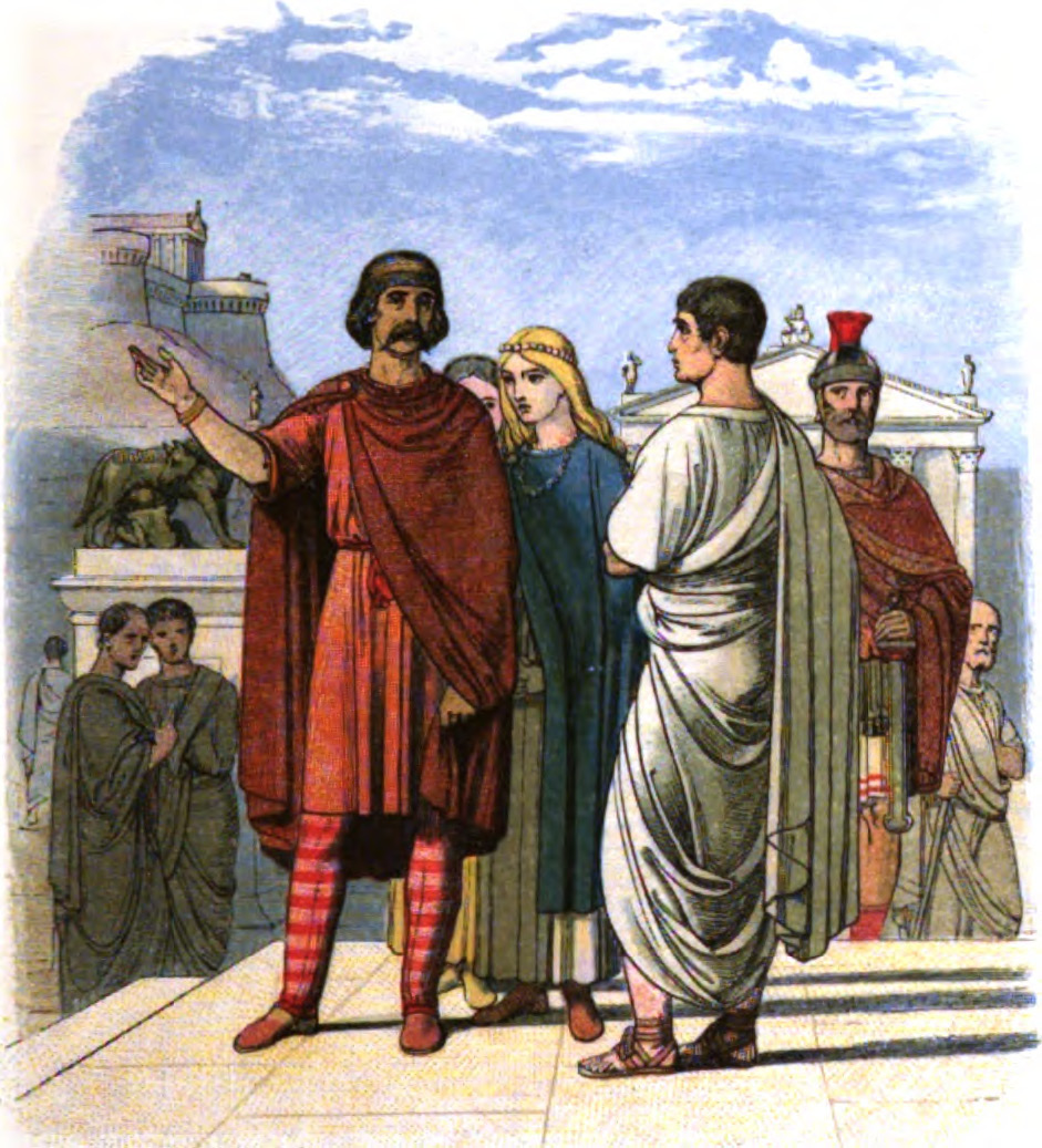 Caractacus touring Rome after his release